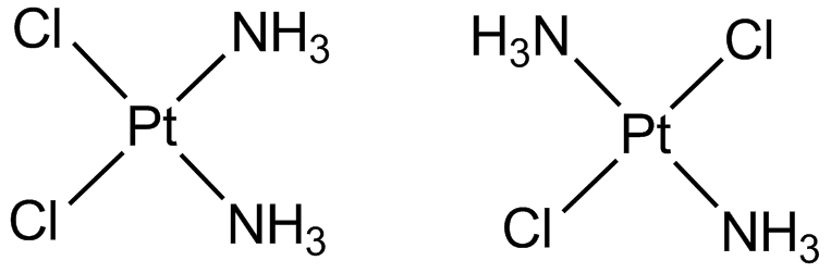 Cisplatin and its trans- isomer